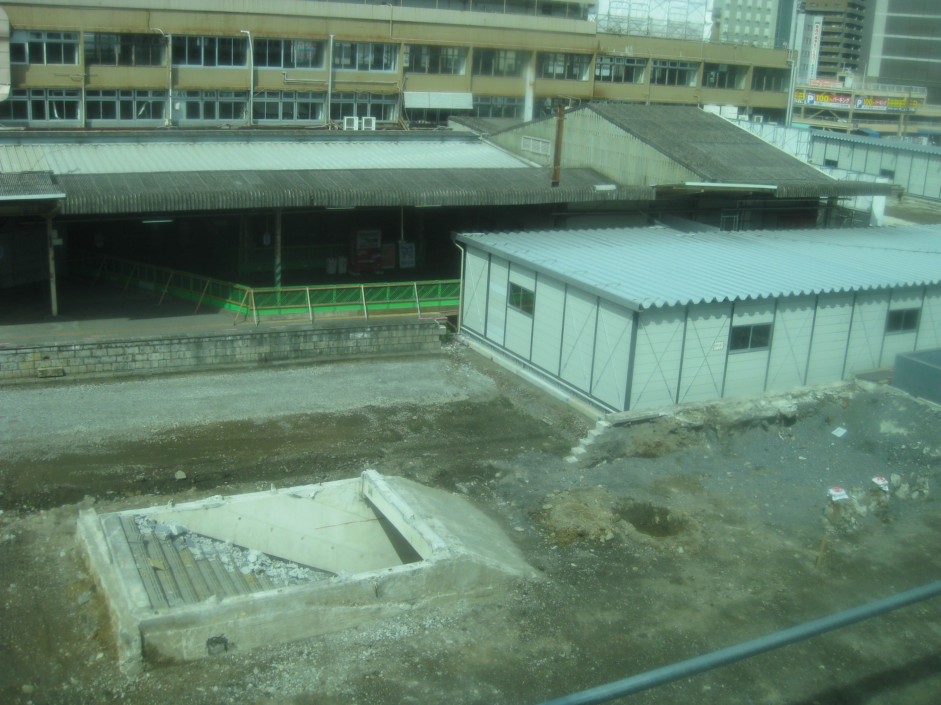 The old Oita Station.Taken in a train.